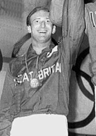 Left-right: Allan Jay, Giuseppe Delfino, Bruno Habārovs at the 1960 Olympics